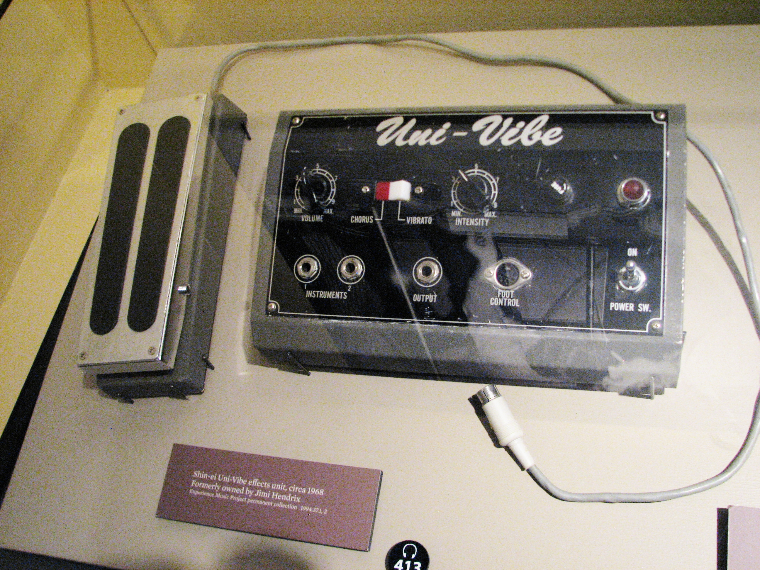 Oct 7-8 2011 083